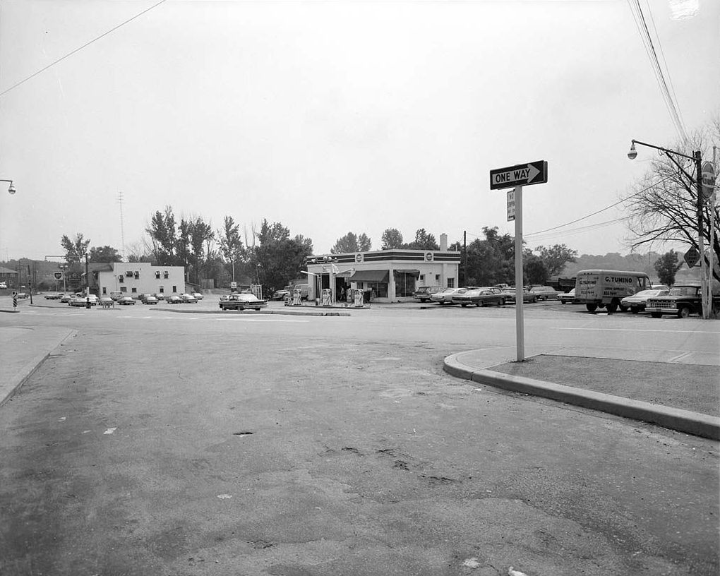 Gulf and BP gas stations, Scarlett Road Photographer: Alexandra Studio